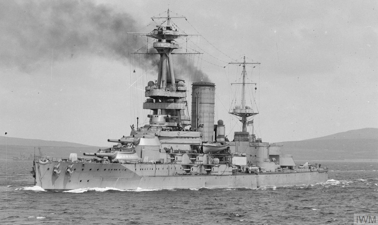 Photograph of battleship HMS Canada.